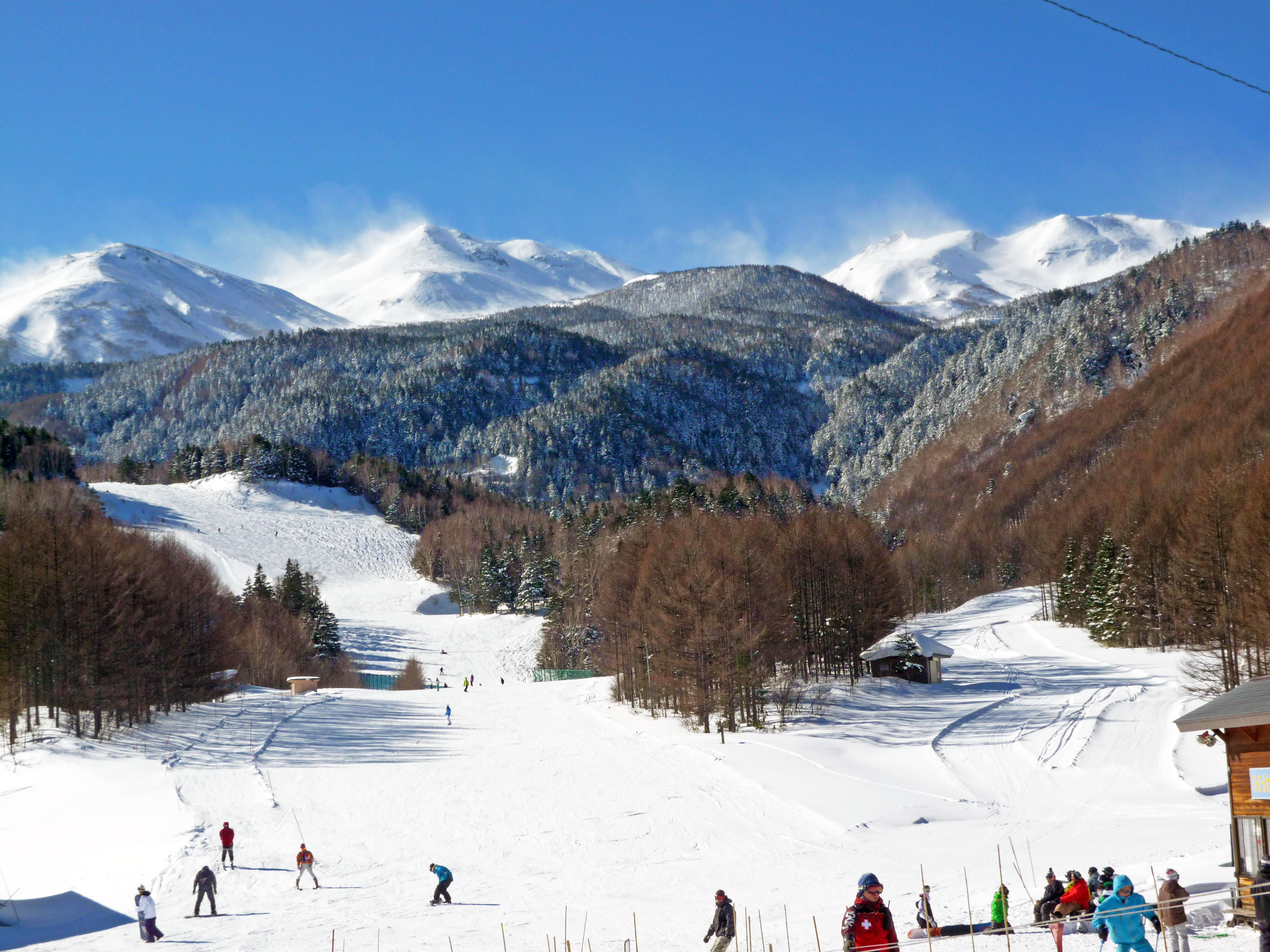 Norikura Kogen Snow + Spa Resort and Mt. Norikura in Matsumoto, Nagano, Japan.